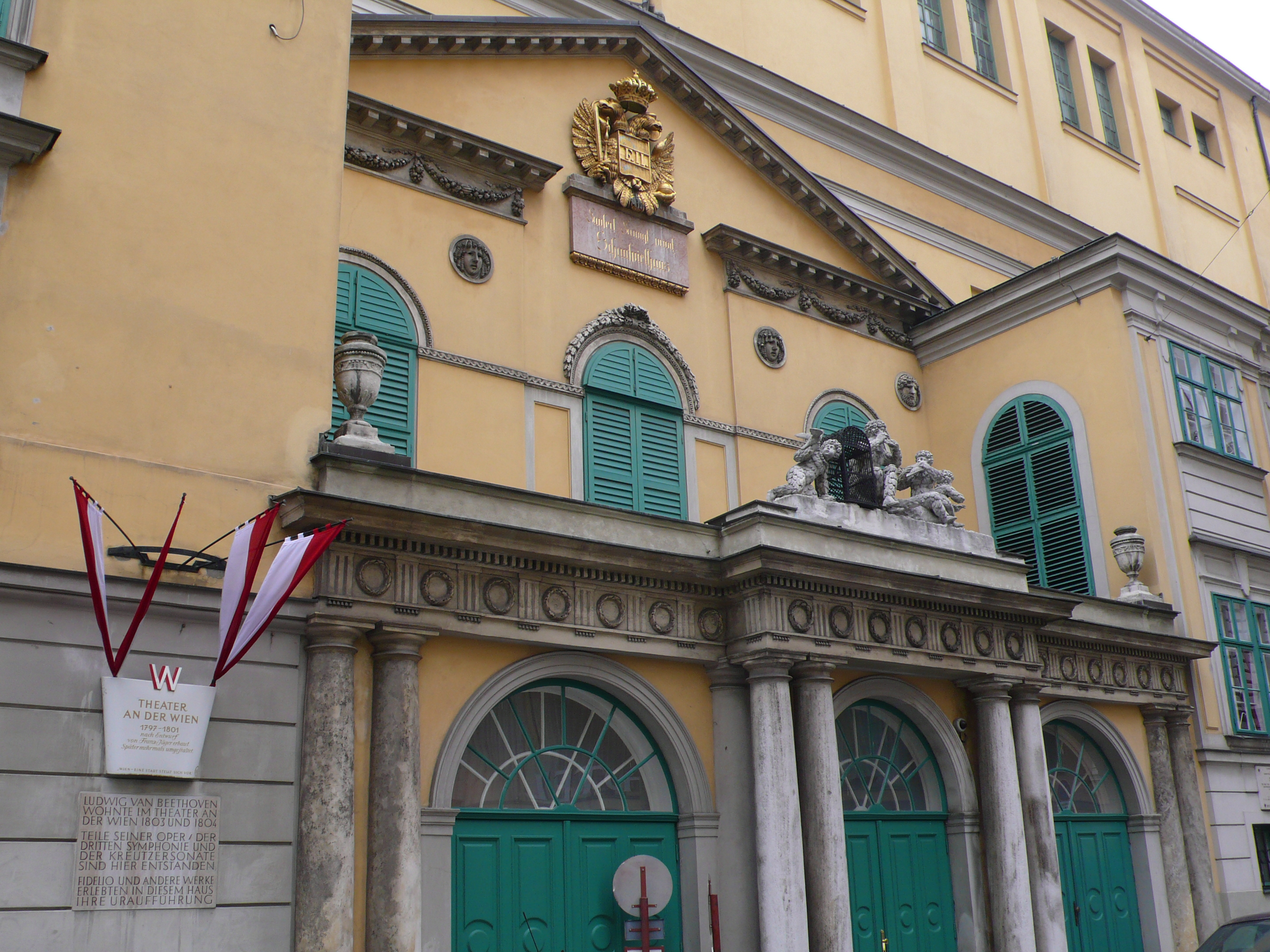 Theater an der Wien, Papagenotor, Wien